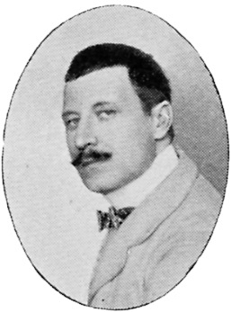 Image scanned from the book "Svenskt Porträttgalleri XX - Arkitekter, Bildhuggare, Målare m.fl. " ("Swedish Portrait Gallery XX - Architects, Sculptors, Painters, ") published 1901